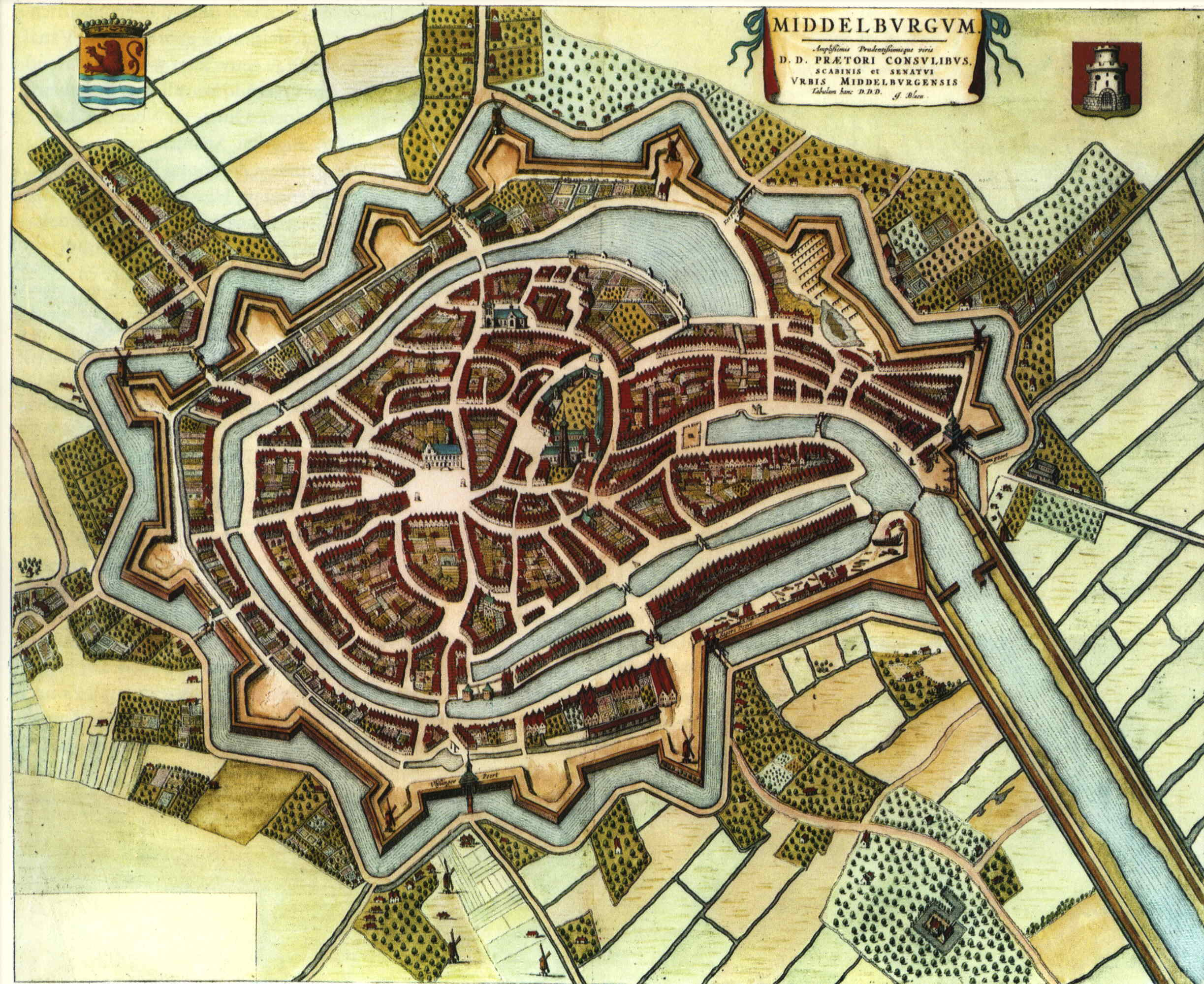 Coloured map of Middelburg, The Netherlands